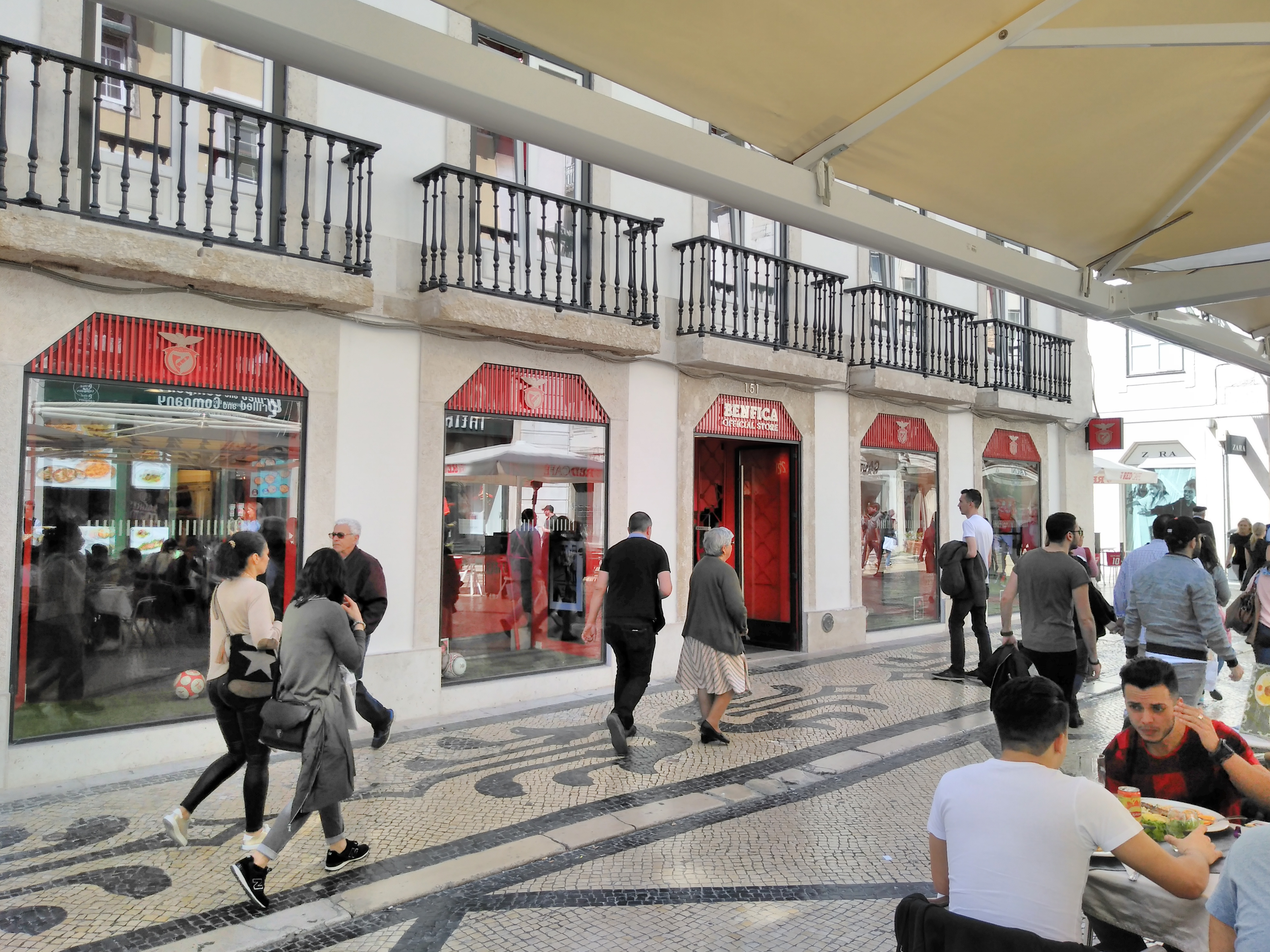 Benfica Official Store in Rua Augusta